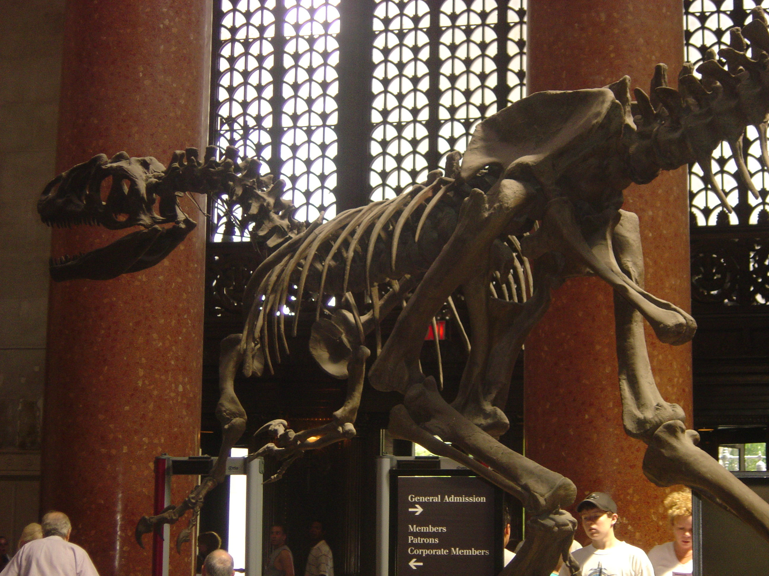 Picture of an Allosaurus and a few visitors at the American Museum of Natural History . I captured this while touring New York.